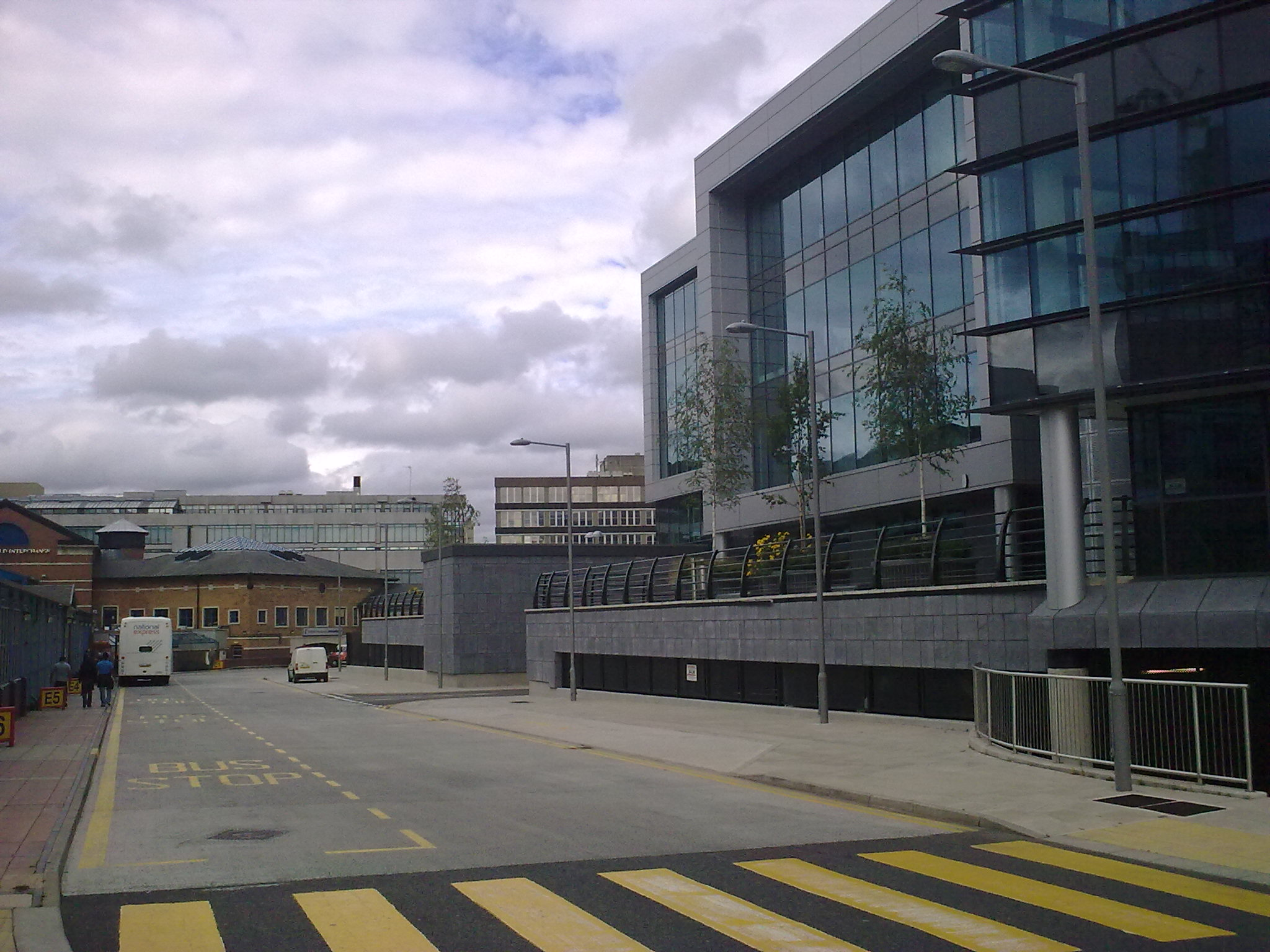 On the left side of the image is the Sheffield Interchange (Sheffield, England) coach stands. To the right is the new Digital Campus development.